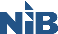 The logo of the Nordic Investment Bank (NIB). The bank's headquarters is in Helsinki, Finland.